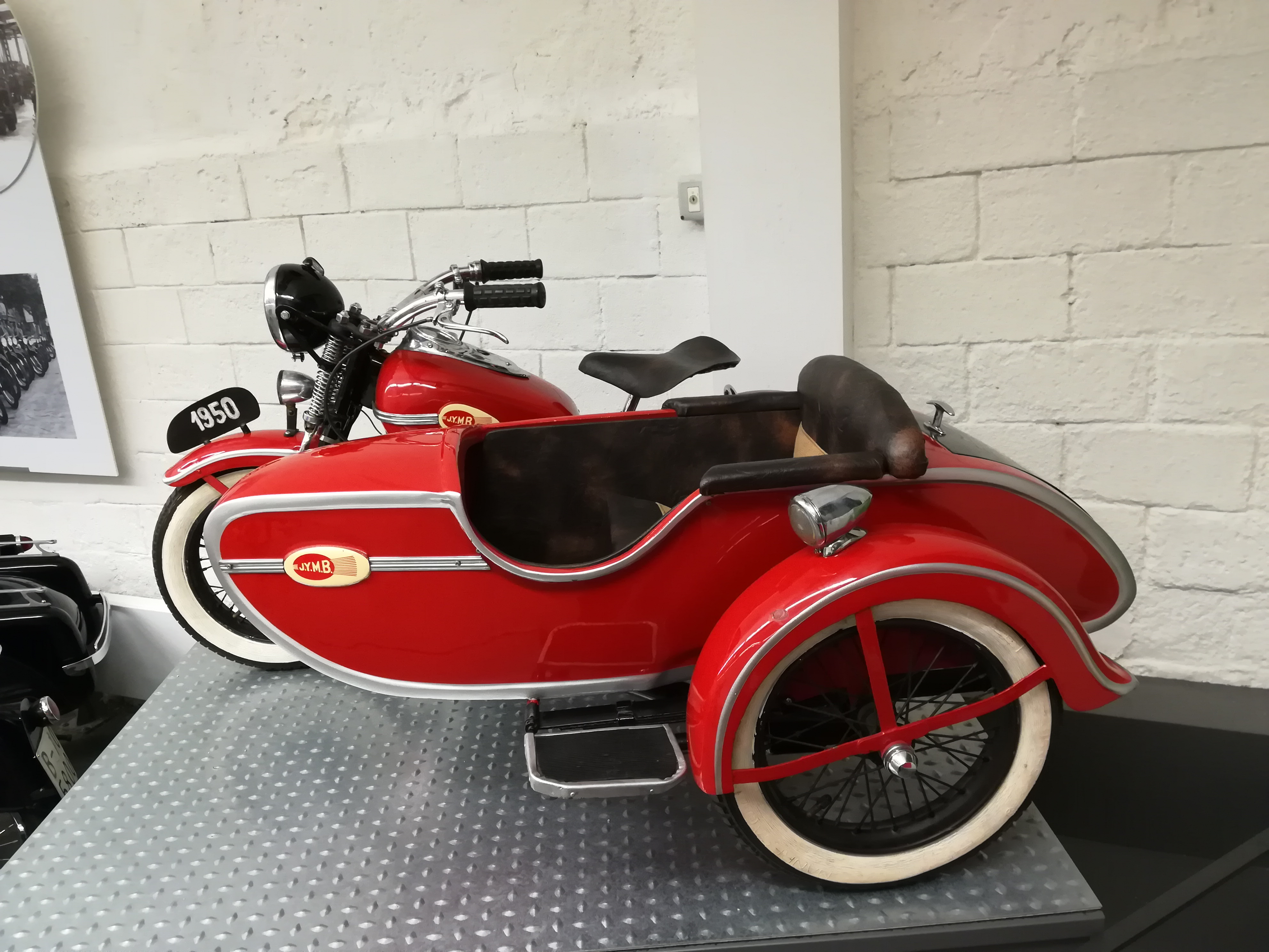 JYMB Infantil with a sidecar (1951). Museu de la Moto de Barcelona (Catalonia).